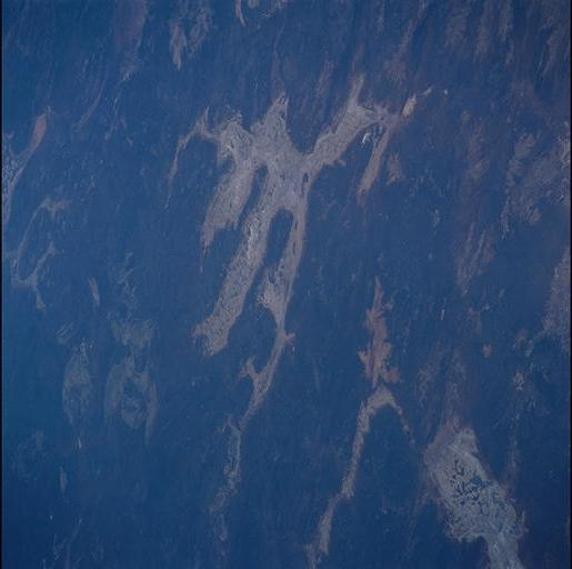 Lake Barlee, taken from outer space. The original NASA image was oriented so that north was approximately down. This image is a rotation of the original to make north point approximately upwards.